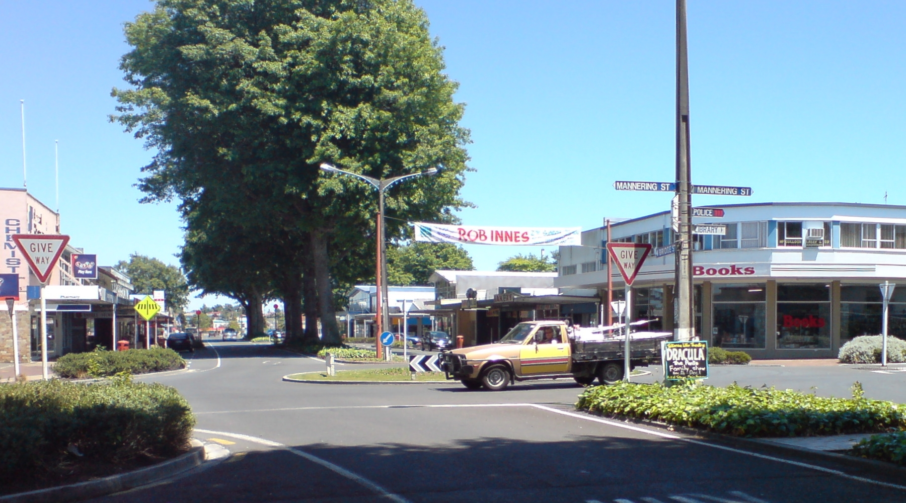 A look west down one of the main streets of Tokoroa, Region of Waikato, New Zealand. Coordinates are approximate (though I think this is the correct roundabout).